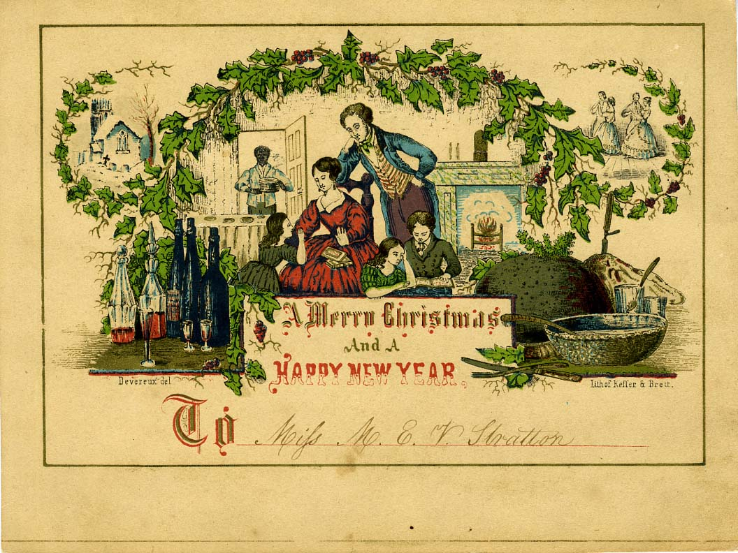 An early American Christmas card, 1850